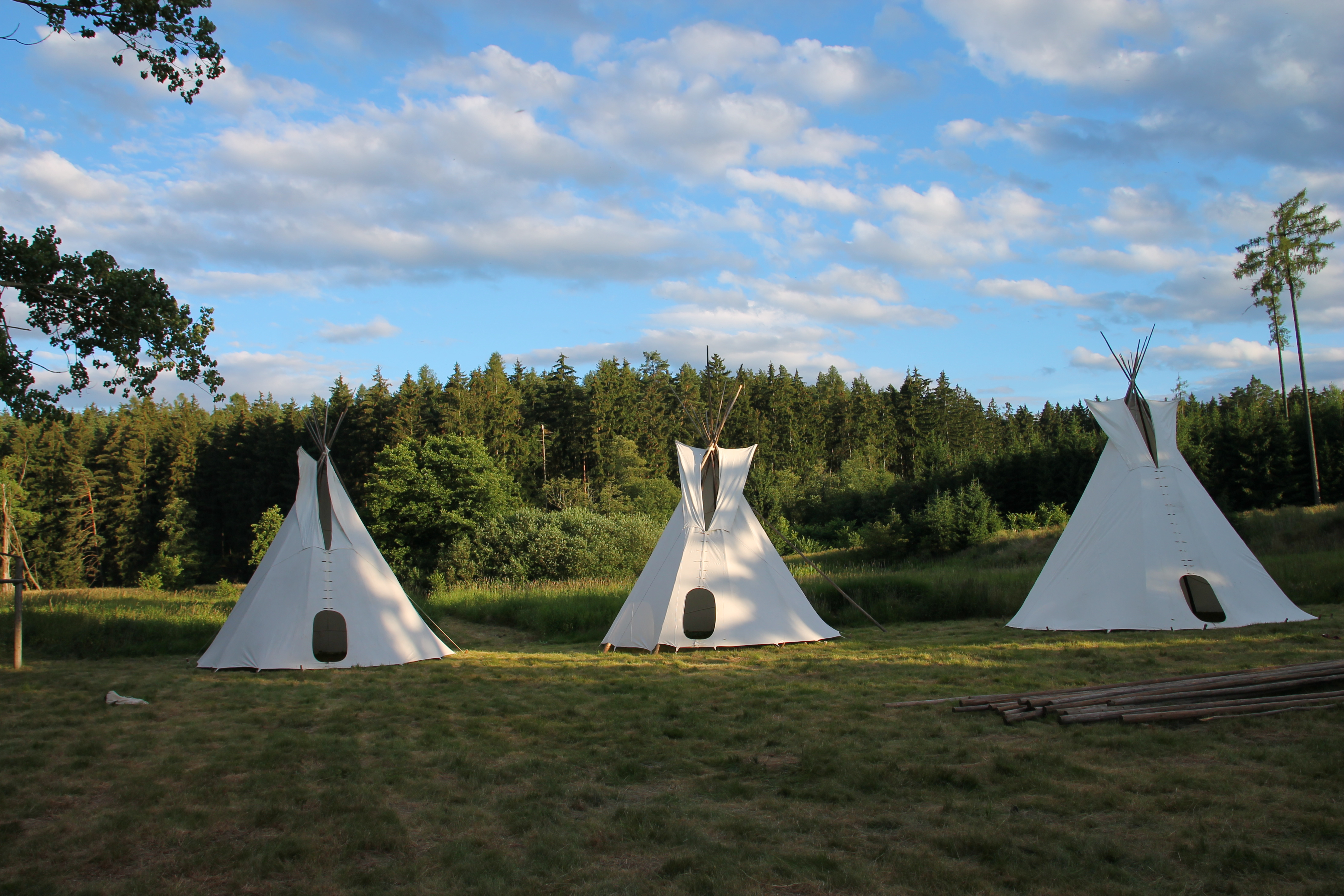 Scout campsite Valeč u Hrotovic, tipis